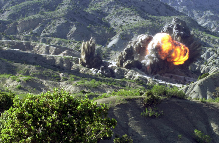 British Royal Engineers of Task Force Jacana destroy a cave complex on the border between the Paktika and Paktia provinces in Afghanistan on May 10, 2002, during Operation Snipe. This was reportedly the largest explosion set off by the Royal Engineers since World War II